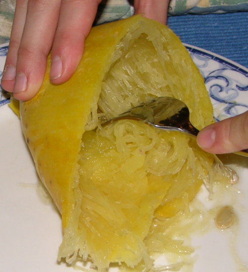 Half of a cooked, prepared Spaghetti Squash. Photo by Derek Ramsey (Ram-Man)